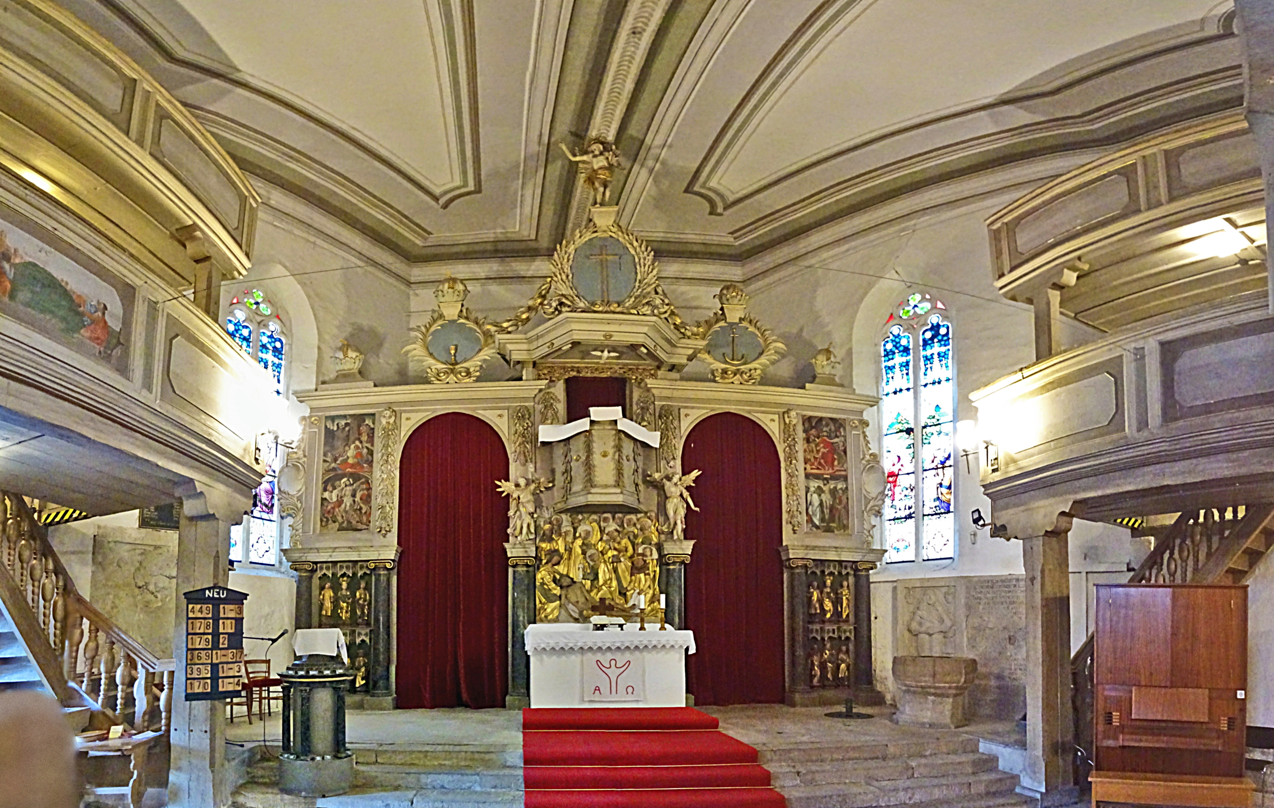 Altar und Kanzel in St.Vitus, Schloßvippach